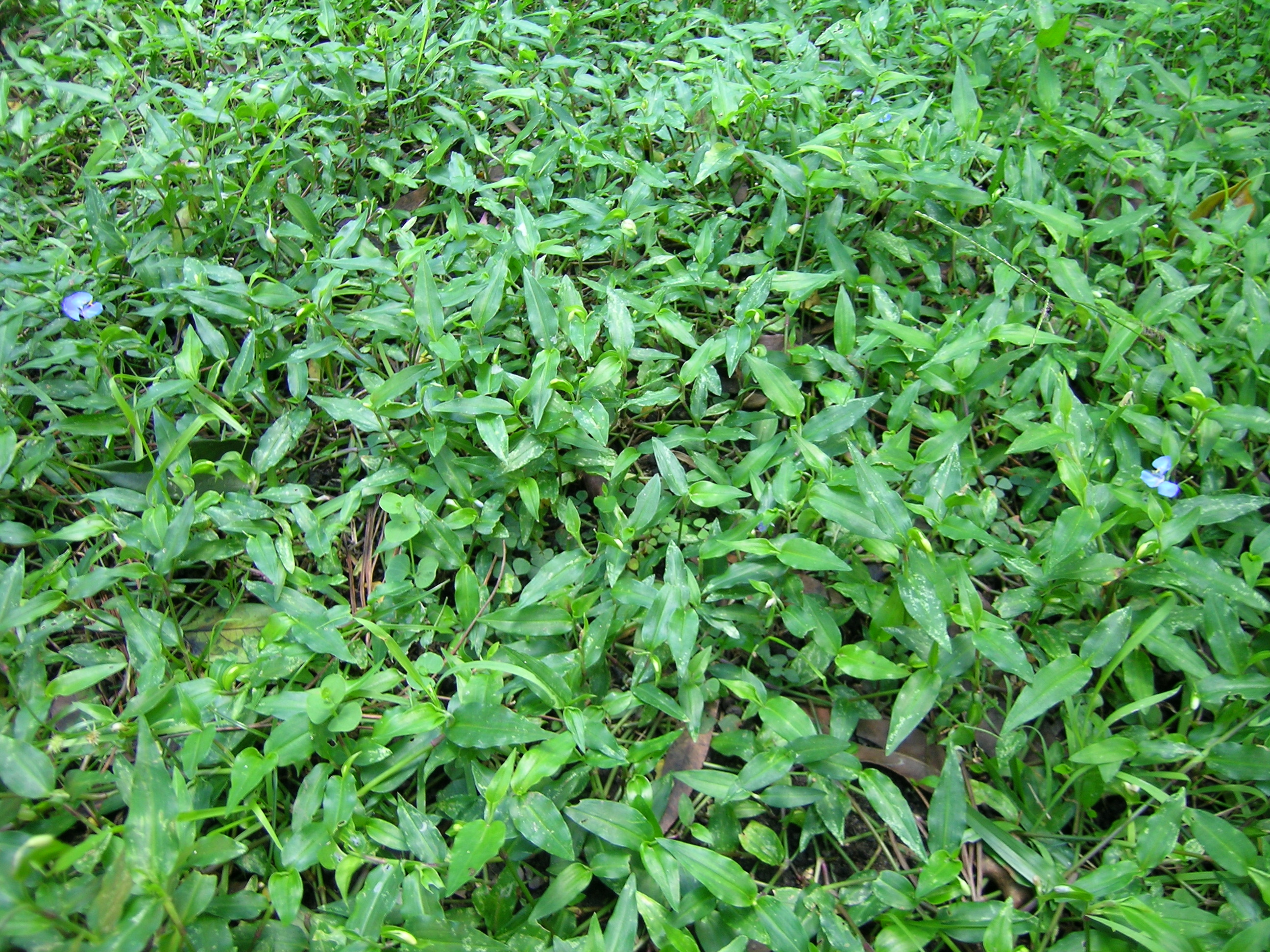 Native, warm-season, perennial, weak, trailing herb. Stems are fleshy and root at the nodes. Leaves are broad and 2-7 cm long, with parallel longitudinal veins and leaf-sheaths to about 15 mm long. Found in shady moist habitats, especially rainforest, eucalypt forest and woodland; sometimes weedy.